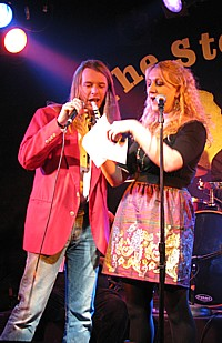 Announcing the Asbury Music Award winners